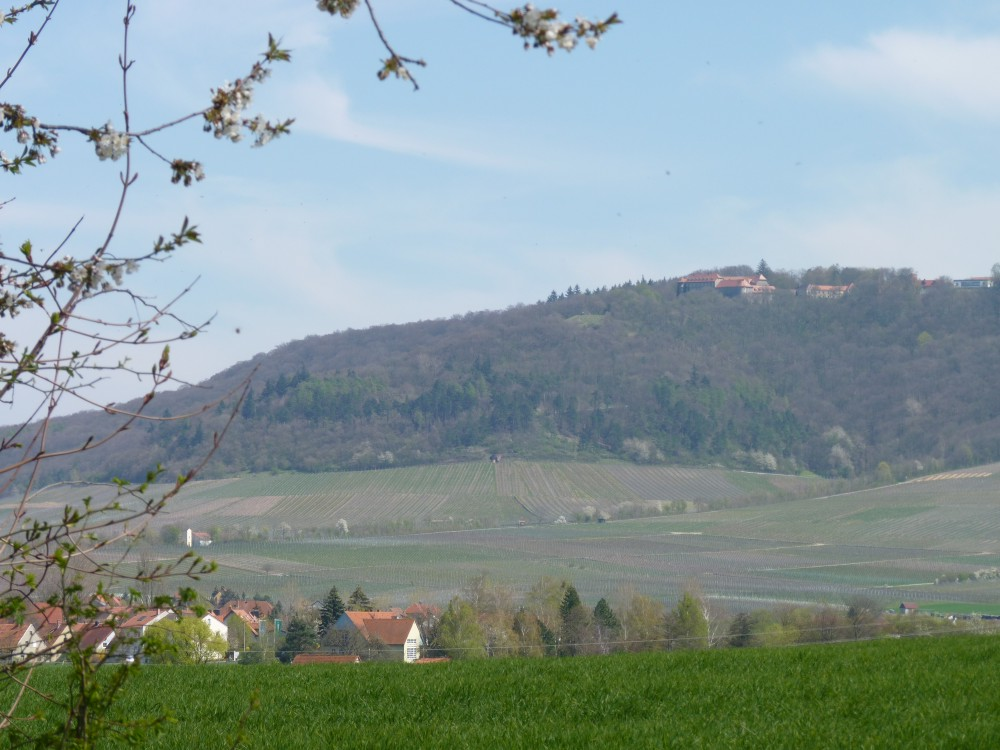 General view of Mt. Schwanberg near Kitzingen, Bavaria, Germany